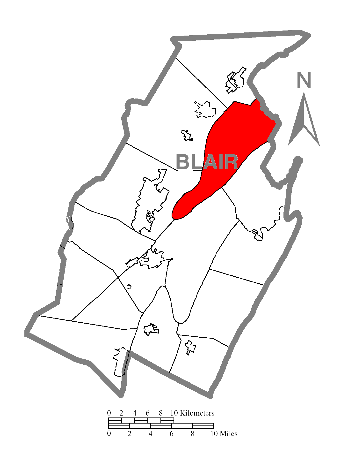 A map of Blair County showing Tyrone Township, Pennsylvania (alternate) highlighted on the map.